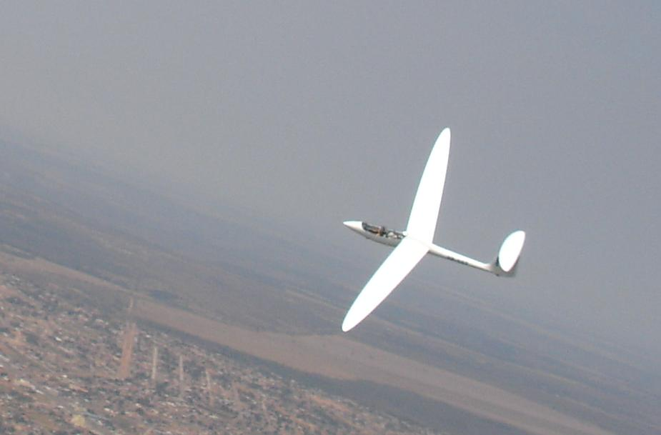 A picture of the glider P1 flying over Luziania in Brazil.